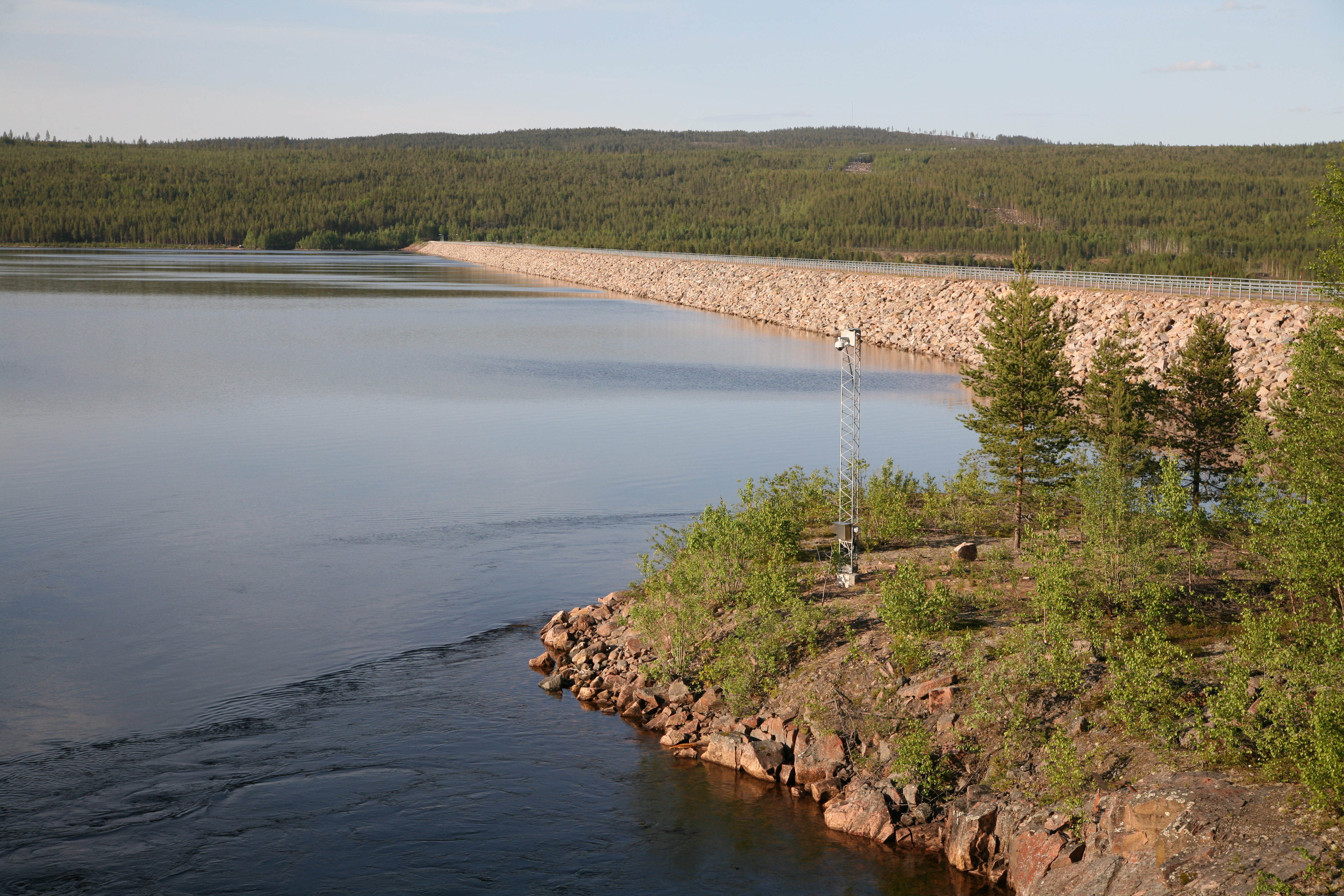 The dam seen from the side where the power plant is located.